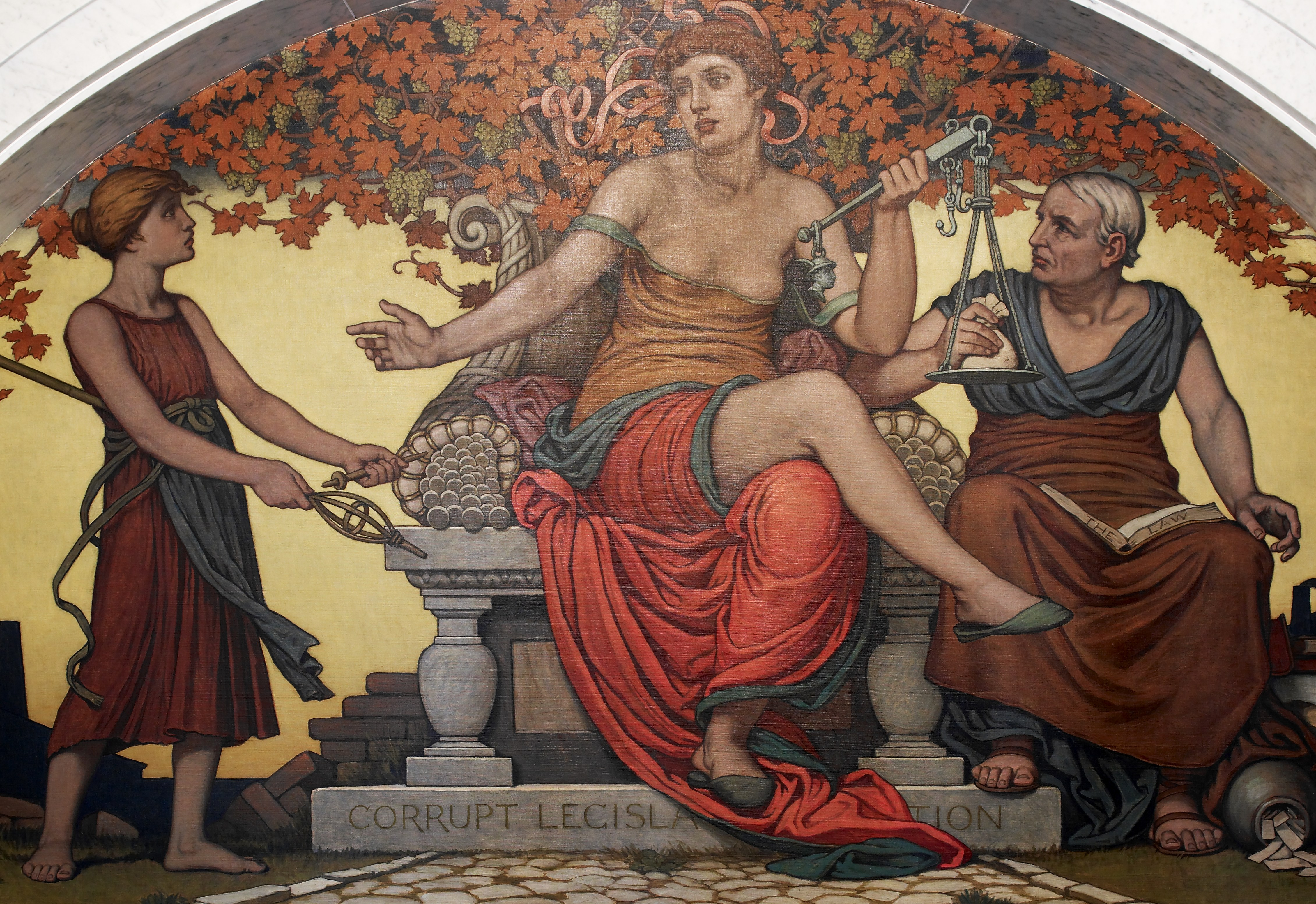 Detail from Corrupt Legislation. A girl standing in the ruins of a brick wall shows an empty spindle and distaff to a throned personification of corrupt legislation, which holds a one-sided balance by gripping the balance beam. To the other side, an elderly figure reading from a book labelled "law" places a (money?) bag on the balance's one pan. Also, among the law books is a full vase spilling what may be voting slips, suggesting a rigged voting system. Mural by Elihu Vedder. Lobby to Main Reading Room, Library of Congress Thomas Jefferson Building, Washington, D.C. Main figure is seated atop a pedestal saying "CORRUPT LEGISLATION". Artist's signature is dated 1896.